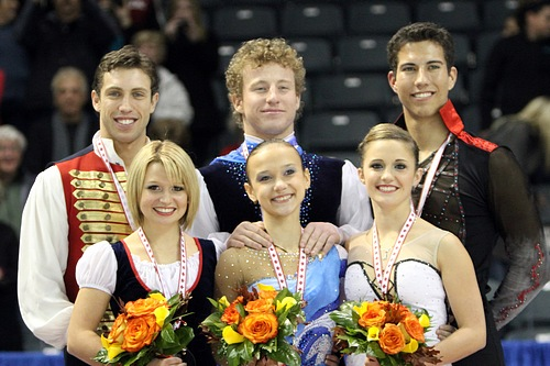 Kirsten Moore-Towers / Dylan Moscovitch (2), Lubov Iliushechkina / Nodari Maisuradze (1), Paige Lawrence / Rudi Swiegers (3) at the 2010 Skate Canada International